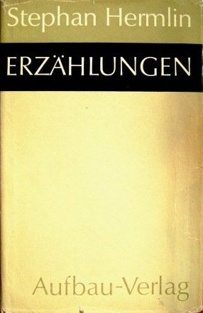 Book cover of Stephan Hermlin "Erzählungen" 1966